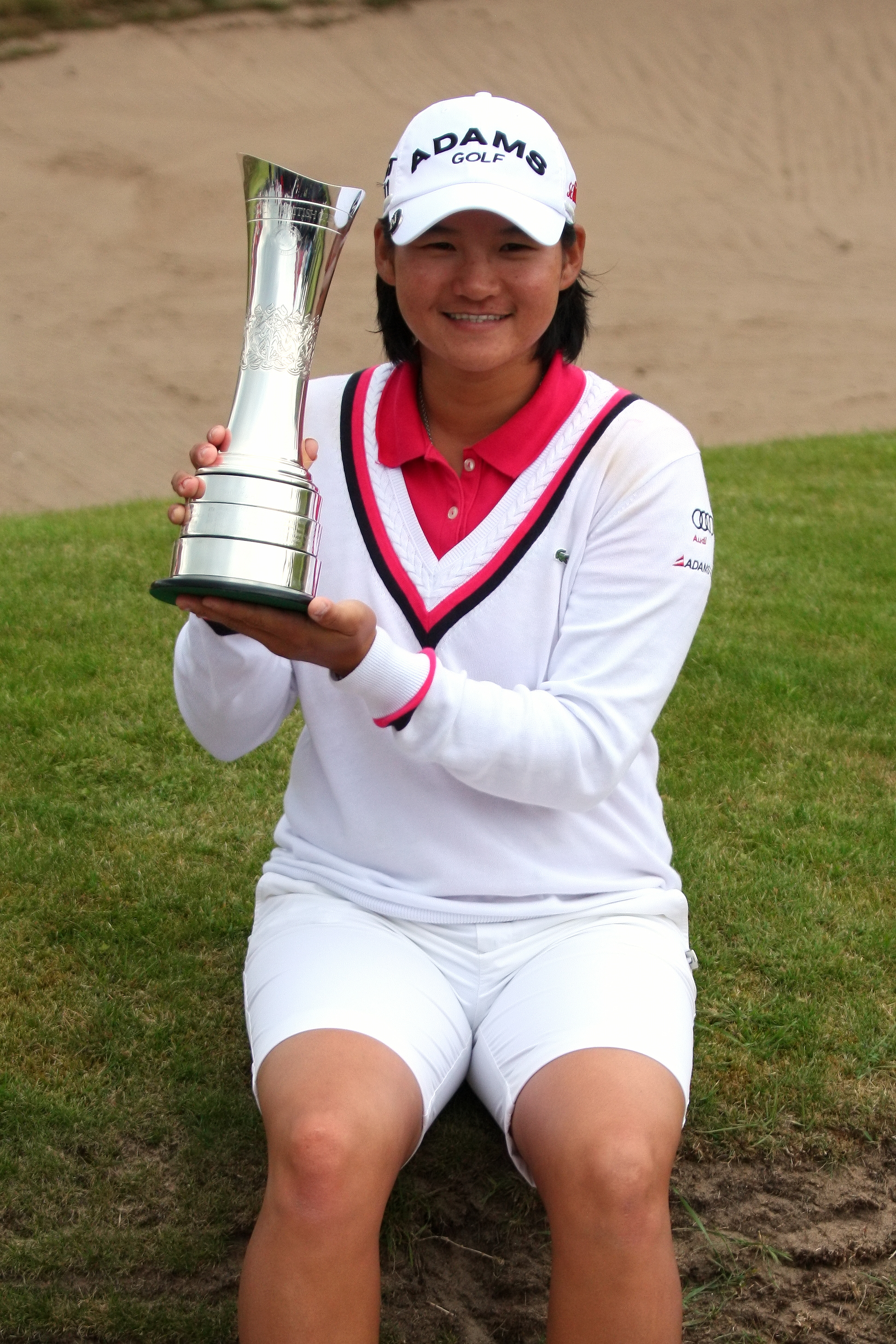 CARNOUSTIE, SCOTLAND - JULY 31: Yani Tseng of Taiwan poses with the winner's trophy after conclusion of the final round of the 2011 Ricoh Women's British Open at Carnoustie on July 31, 2011 in Carnoustie, Scotland. (Photo by Wojciech Migda)